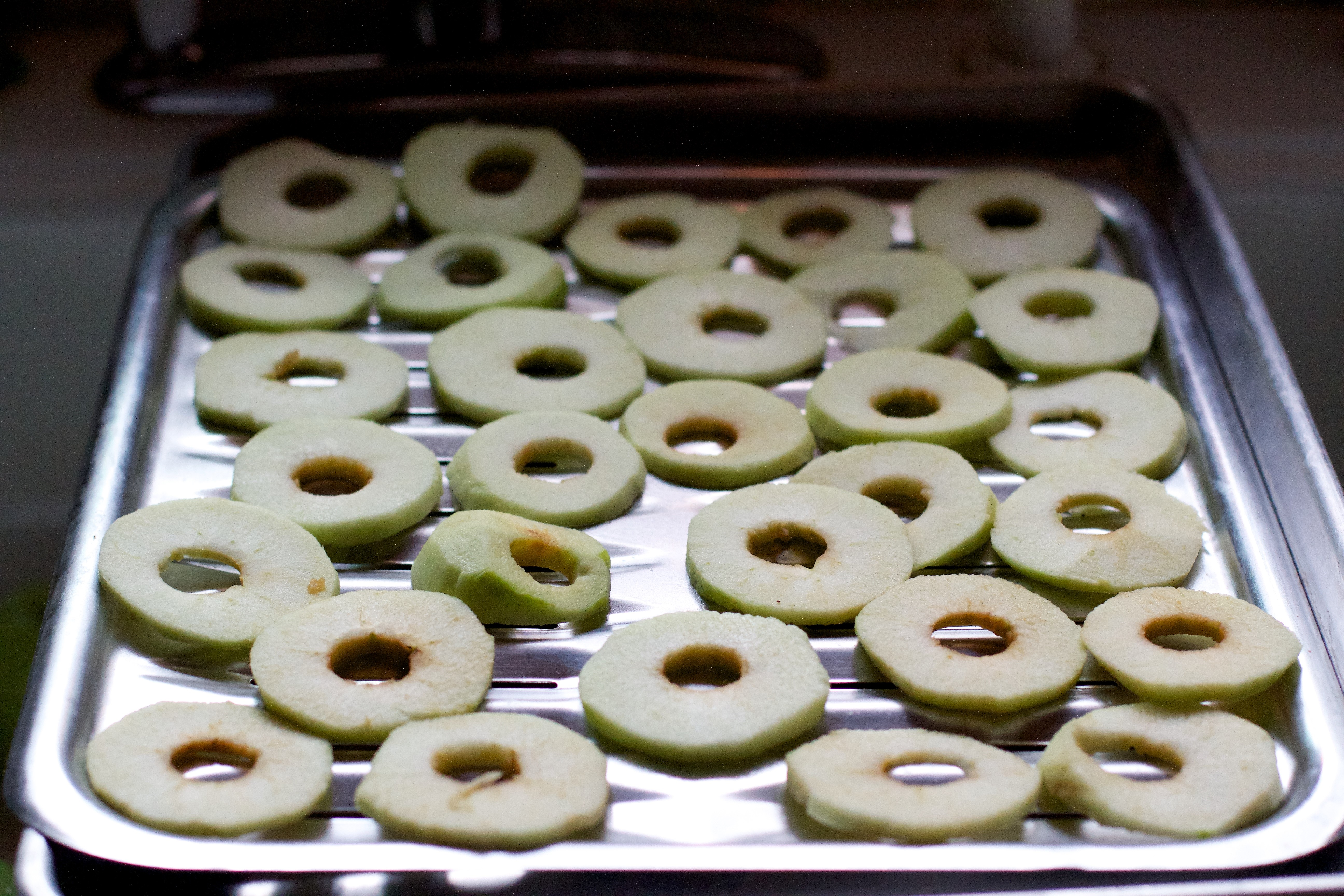 Vorbereitete Apfelscheiben (Apfelringe) – geschälte, vom Kerngehäuse befreite und in gleichmäßige, etwa 1 cm dicke Scheiben geschnittene Äpfel.